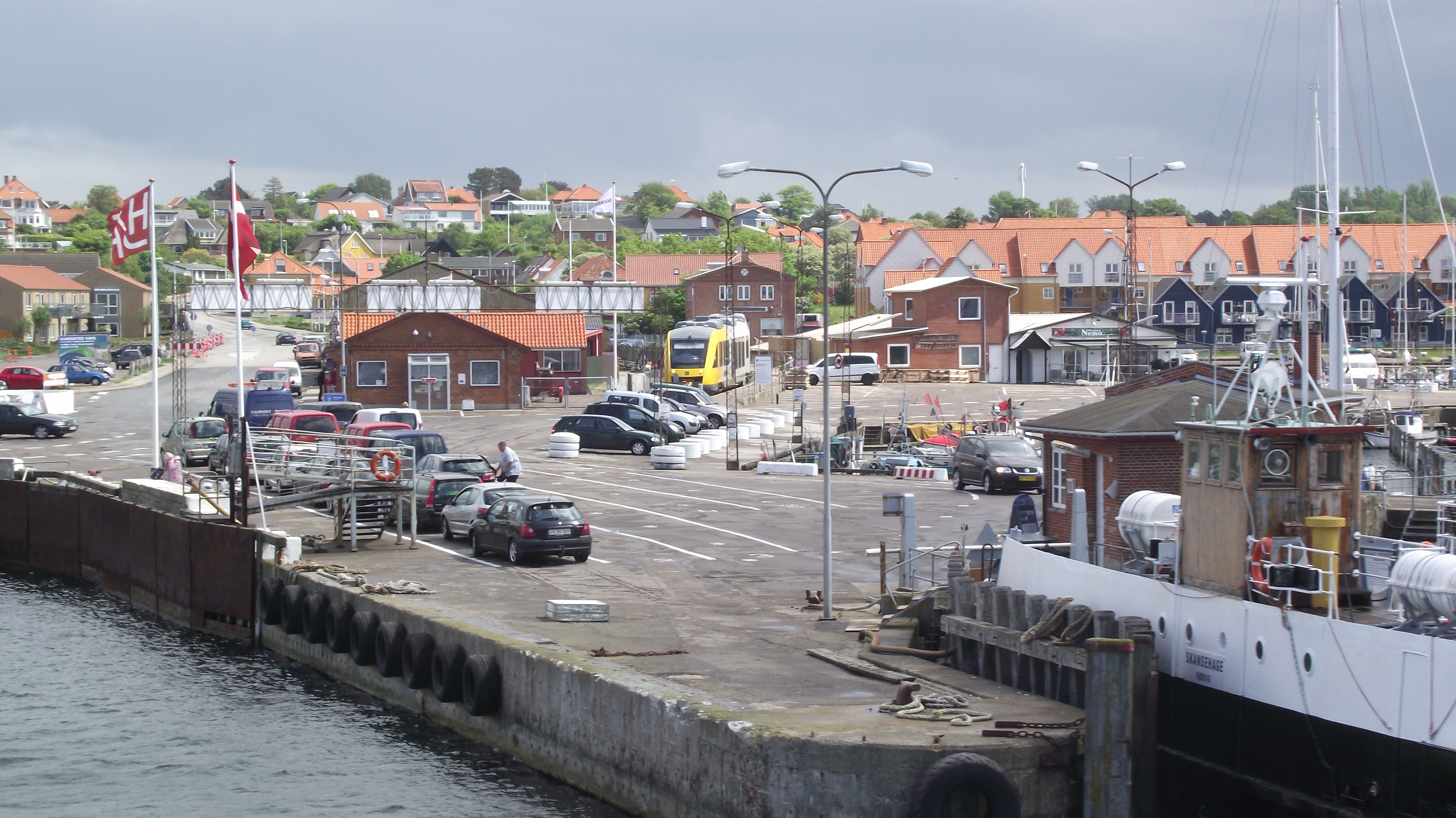 Arriving at Hundested with the ferry. The connecting train has just arrived.